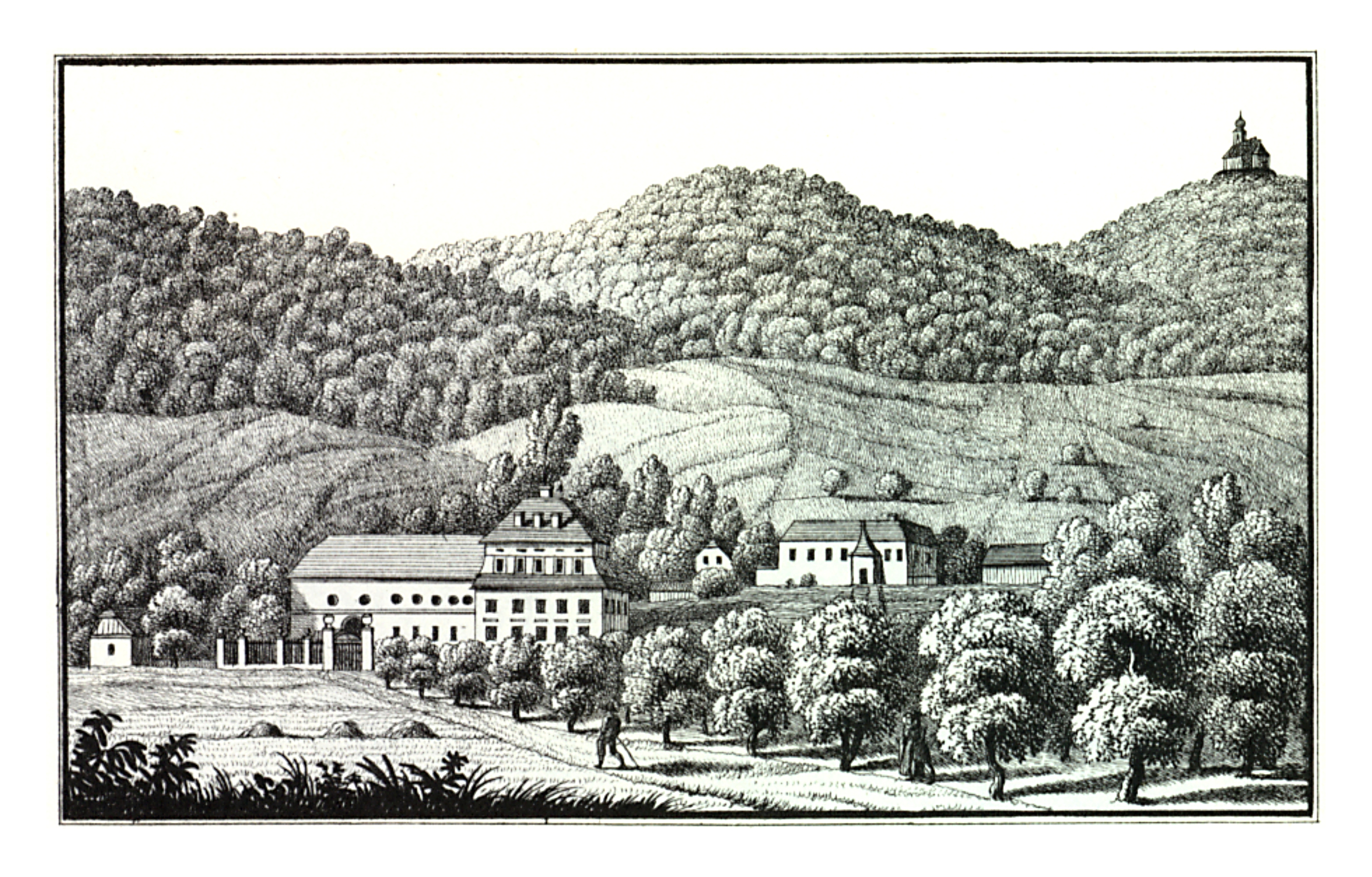 J. F. Kaiser - lithographirte Ansichten der Steyermärkischen Städte, Märkte und Schlösser, Graz 1824-1833 Joseph Franz Kaiser (1786–1859) Alternative names J. F. KaiserDescriptionAustrian printer and editorDate of birth/death 11 March 1786 19 September 1859Location of birth/death Graz (Styria) GrazAuthority control : Q1499963 VIAF: 30629353 ISNI: 0000 0000 3083 0153 LCCN: n87141671 GND: 129880159 NLP: A24960305 WorldCat creator QS:P170,Q1499963 . Scanprojekt Community Projektbudget 2012 This scan or this PDF-file was created within the GLAM-project Bookscanning, supported by Wikimedia Germany and Wikimedia Austria as a part of the community-project to capture books, documents and pictures which are not eligible to copyright or for which the copyright has expired. This document describes or depicts an object which is located in Austria today. Send requests for uncompressed scans to Hubertl. This work is in the public domain in its country of origin and other countries and areas where the copyright term is the author's life plus 100 years or fewer. You must also include a United States public domain tag to indicate why this work is in the public domain in the United States. This file has been identified as being free of known restrictions under copyright law, including all related and neighboring rights. }